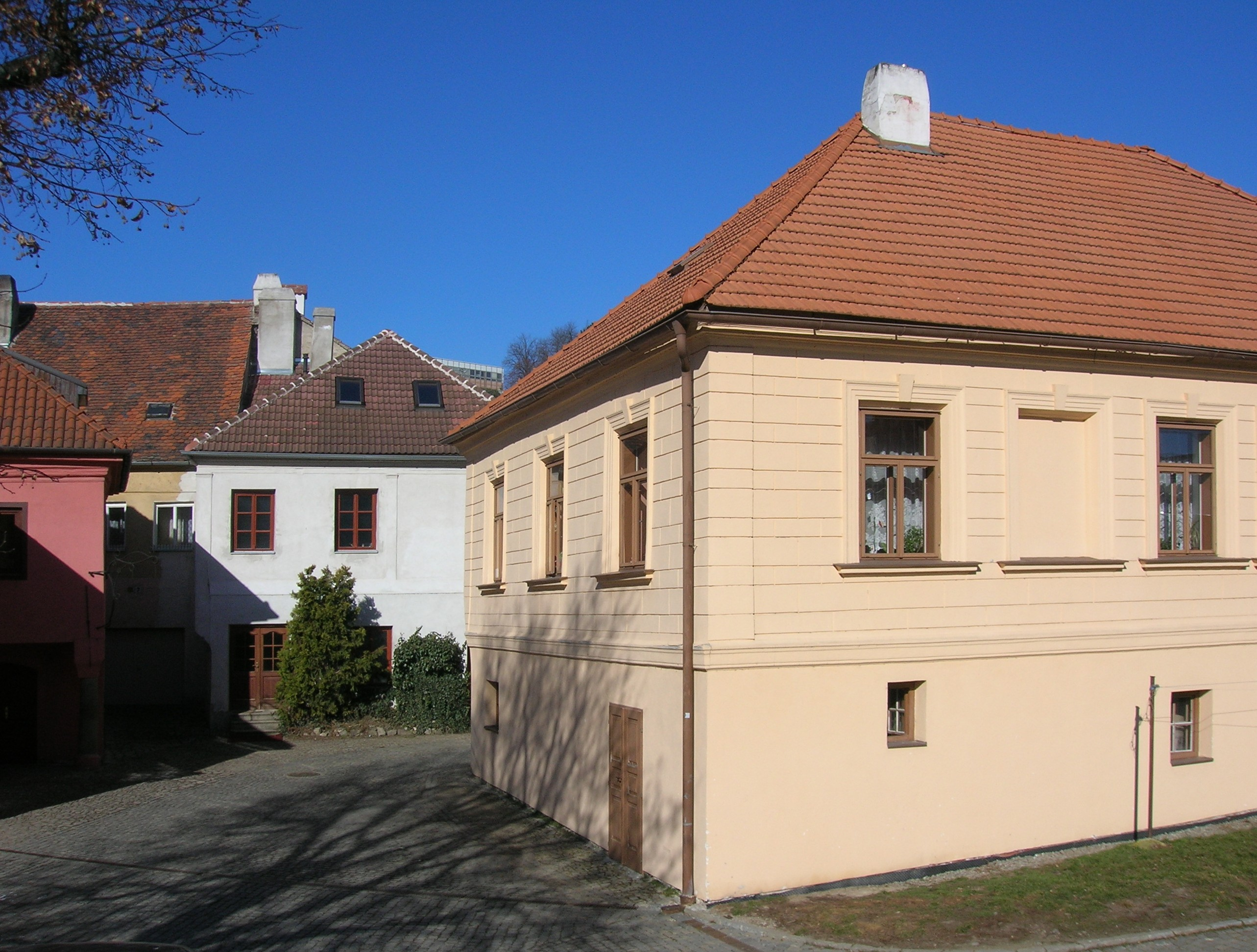 Třebíč-Zámostí. Town hall